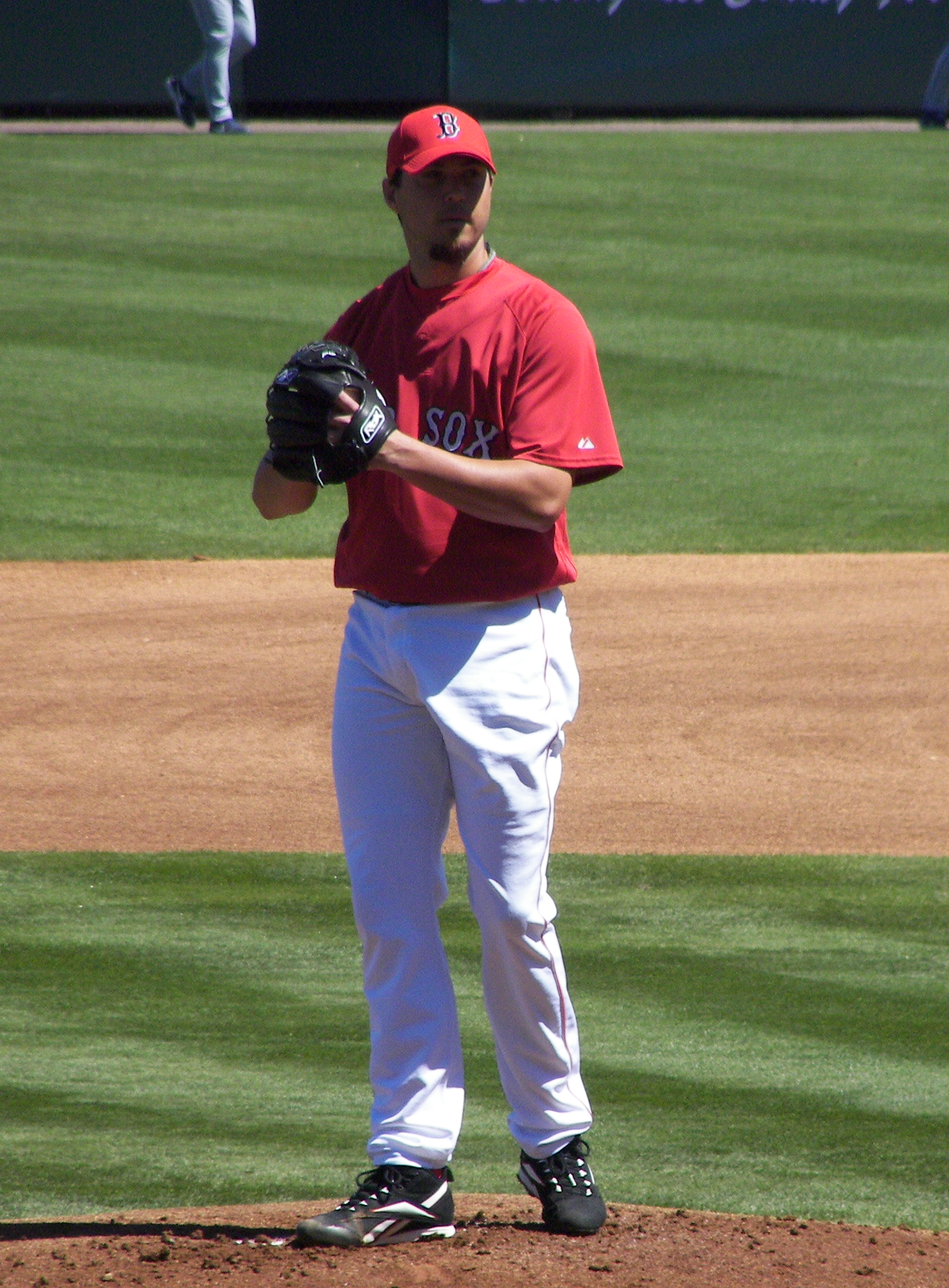 Boston Red Sox pitcher Josh Beckett pitching during a Red Sox/Los Angeles Dodgers spring training game at City of Palms Park in Fort Myers, Florida.